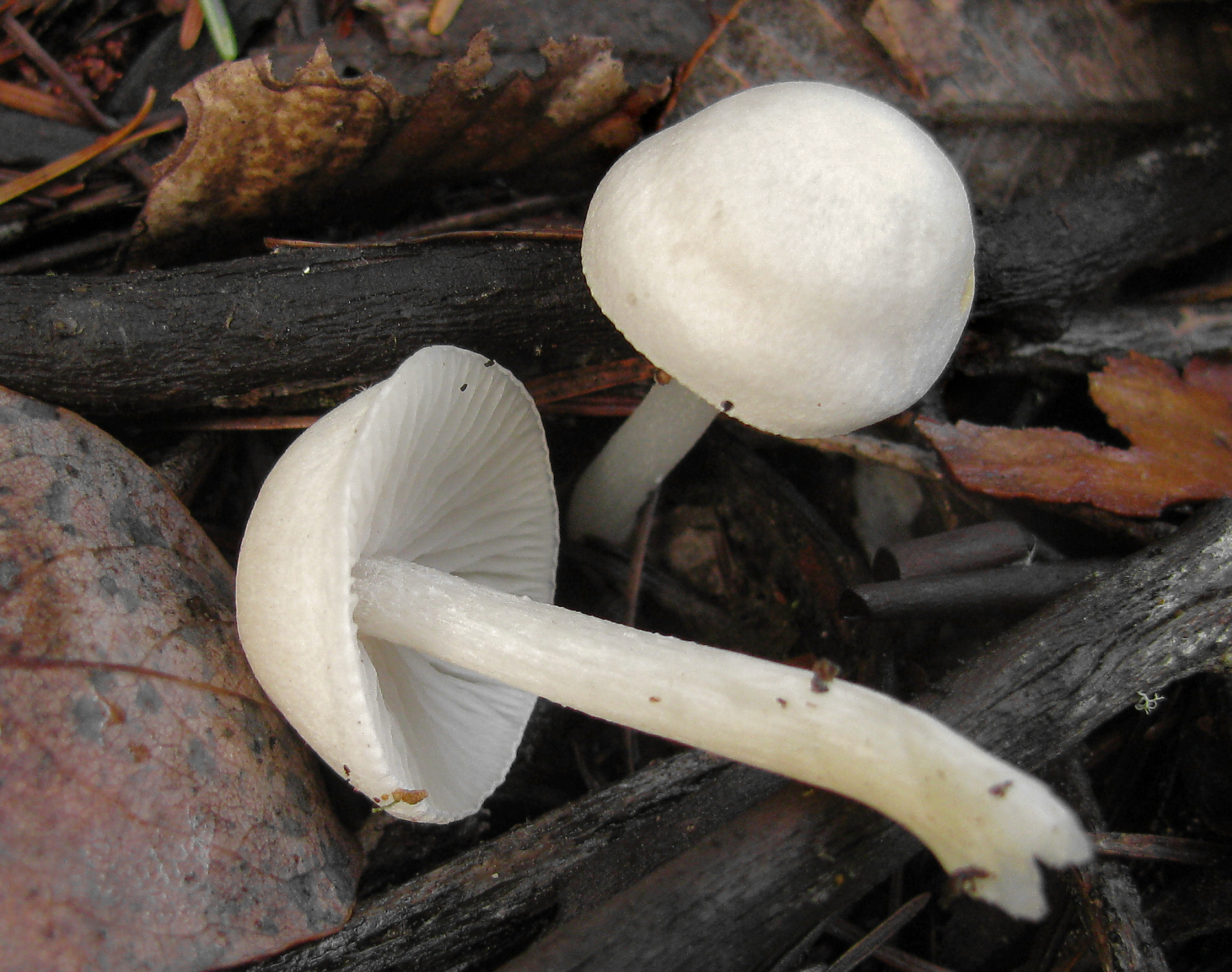 Entoloma sericellum Location: Gualala, California, USA For more information about this, see the observation page at Mushroom Observer.